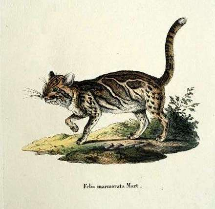 Marbeld cat